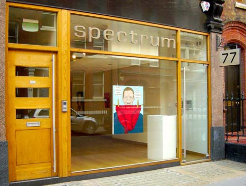 Spectrum London Gallery, 77 Great Titchfield Street, London W1, showing Charles Thomson's painting "Sir Nicholas Serota Makes an Acquisitions Decision" during the Stuckists "Go West" show in October 2006.